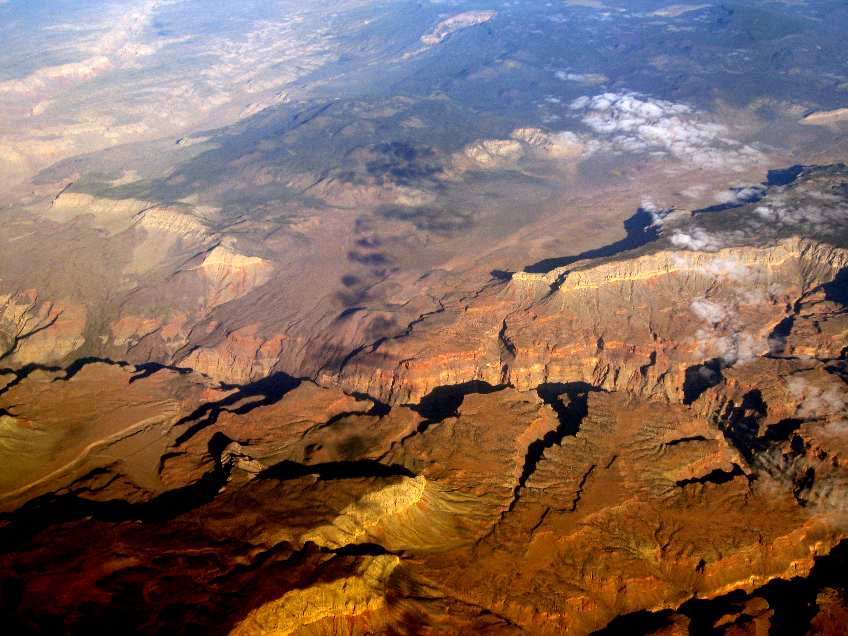 The Grand Canyon, from about Mohawk to Whitmore Canyons, below the Uinkaret Volcanic Field, and the lava flow over the rim (center left) from this volcanic field (center top). The lava flow into the gorge is Lava Falls, and creates one of the major river rapids, Lava Falls Rapids. The site is downdropped (to west, left) from the Toroweap Fault. The Hurricane Fault (to southwest Utah, see Hurricane Cliffs), begins here, and strikes west along the west side of the (small) Uinkaret Mountains-(north, Mount Trumbull Wilderness); the Toroweap Valley is just east. The Toroweap Fault strikes along the east of Toroweap Valley going north into border region of Utah. Across the river, south, the Aubrey Cliffs, (east border of Toroweap Fault), strikes south towards Aubrey Valley, and Seligman, AZ. The Aubrey Cliffs are the west perimeter of the Coconino Plateau-(the (east)-South Rim, Grand Canyon, down to Flagstaff, and the San Francisco volcanic field).